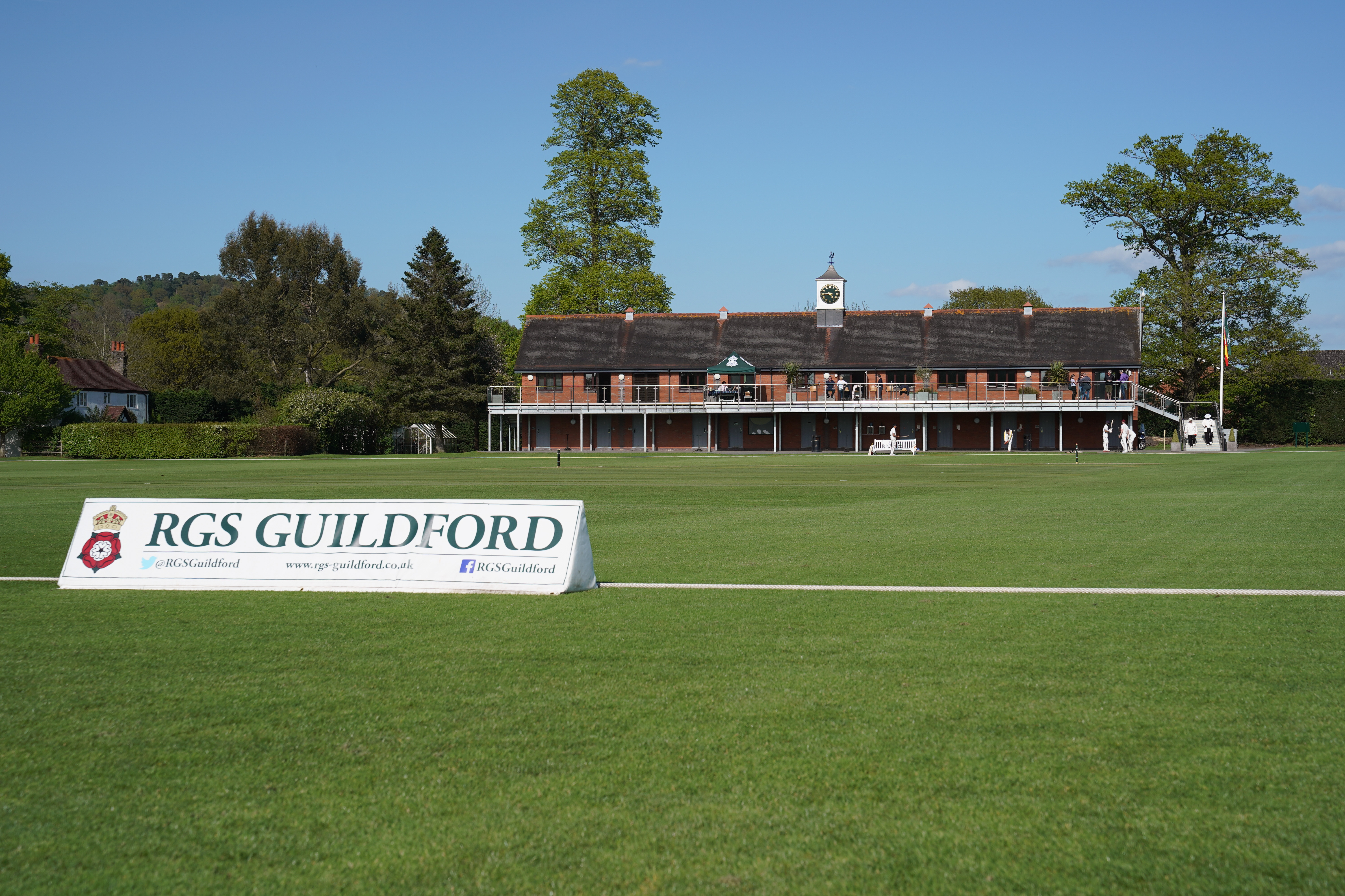 The main Cricket Square (Shore Square) at Bradstrone Brook, the rural setting of the RGS playing fields in Chilworth, near Guildford.